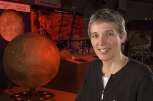 Nathalie Cabrol (astrobiologist)